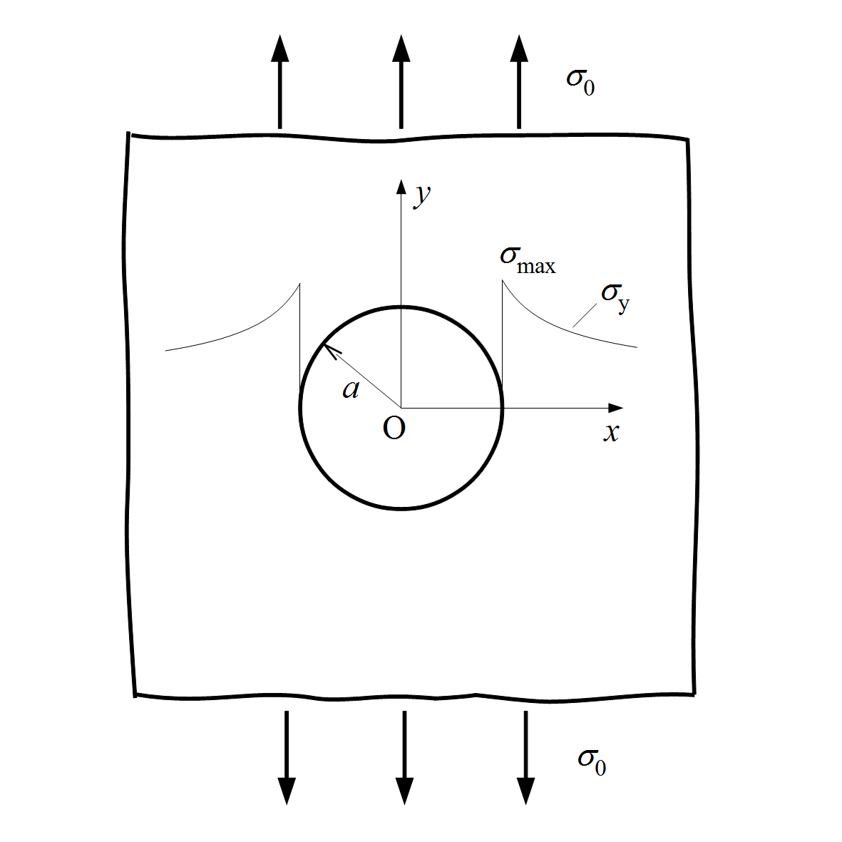 stress concentration by a through hole subjected to a uniform tensile stress in an inifinite plate